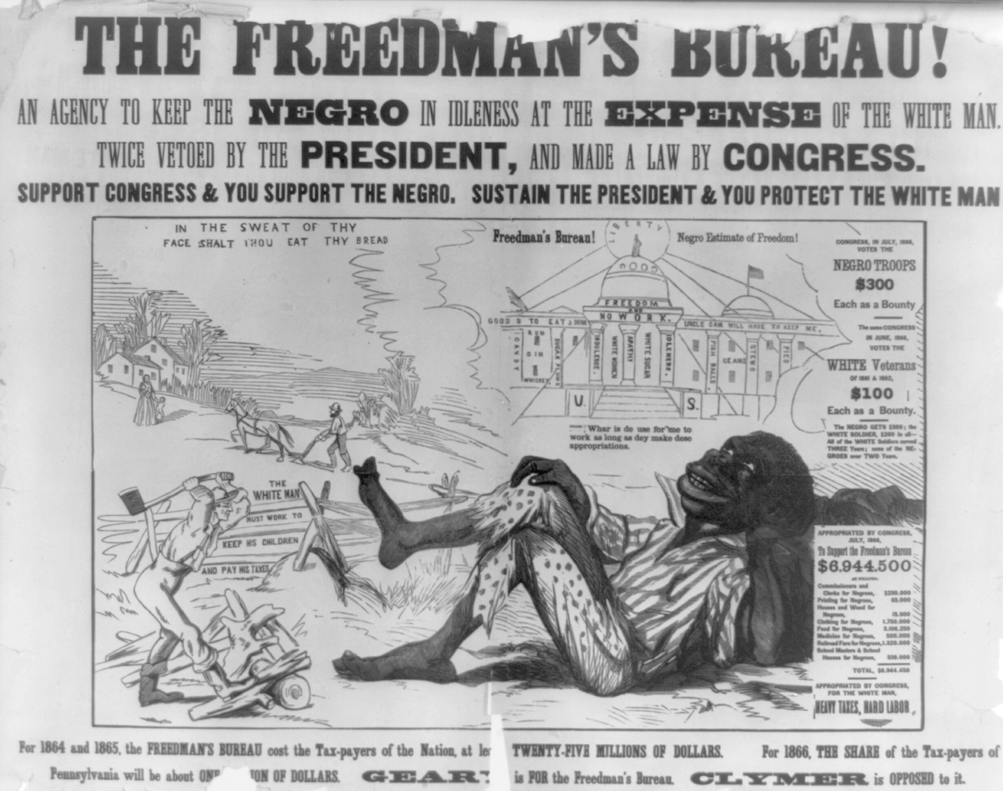 TITLE: The Freedman's Bureau! An agency to keep the Negro in idleness at the expense of the white man. Twice vetoed by the President, and made a law by Congress. Support Congress & you support the Negro Sustain the President & you protect the white man CALL NUMBER: Broadside Collection, portfolio 159, no. 9a c-Rare Bk Coll REPRODUCTION NUMBER: LC-USZ62-40764 (b&w film copy neg.) SUMMARY: One in a series of racist posters attacking Radical Republicans on the issue of black suffrage, issued during the Pennsylvania gubernatorial election of 1866. (See also "The Constitutional Amendment!," no. 1866-5.) The series advocates the election of Hiester Clymer, who ran for governor on a white-supremacy platform, supporting President Andrew Johnson's Reconstruction policies. In this poster a black man lounges idly in the foreground as one white man ploughs his field and another chops wood. Accompanying labels are: "In the sweat of thy face shalt thou eat thy bread," and "The white man must work to keep his children and pay his taxes." The black man wonders, "Whar is de use for me to work as long as dey make dese appropriations." Above in a cloud is an image of the "Freedman's Bureau! Negro Estimate of Freedom!" The bureau is pictured as a large domed building resembling the U.S. Capitol and is inscribed "Freedom and No Work." Its columns and walls are labeled, "Candy," "Rum, Gin, Whiskey," "Sugar Plums," "Indolence," "White Women," "Apathy," "White Sugar," "Idleness," "Fish Balls," "Clams," "Stews," and "Pies." At right is a table giving figures for the funds appropriated by Congress to support the bureau and information on the inequity of the bounties received by black and white veterans of the Civil War. MEDIUM: 1 print : woodcut on wove paper ; 45.5 x 58.1 cm (image) CREATED/PUBLISHED: 1866. NOTES: Title appears as it is written on the item. Published in: American political prints, 1766-1876 / Bernard F. Reilly. Boston : G.K. Hall, 1991, entry 1866-6.